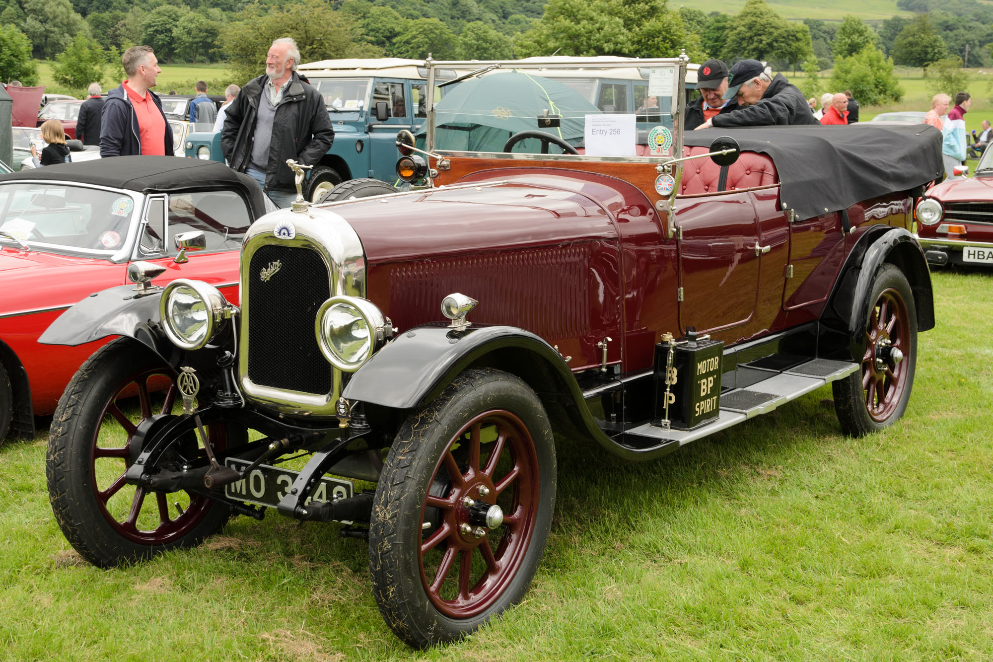 Burnley Classic Car Show 26/06/2016